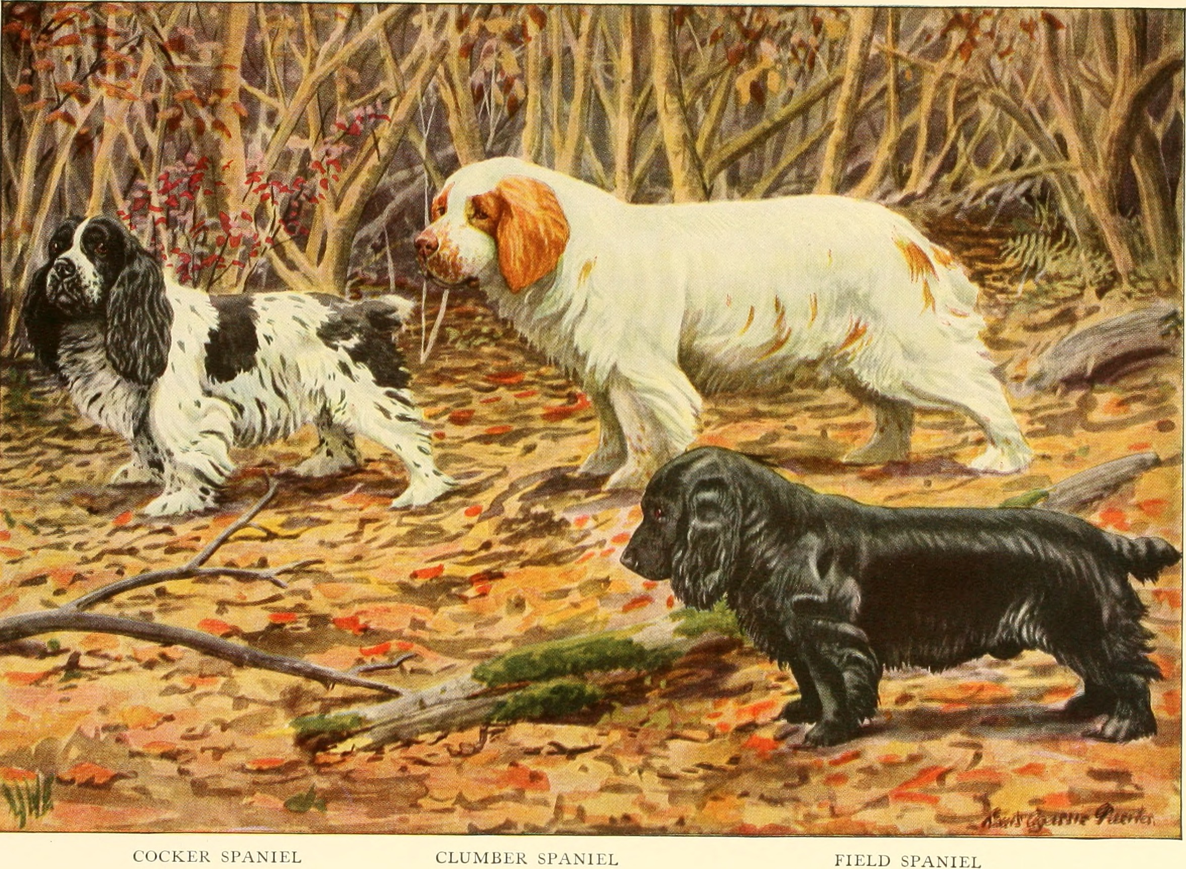 Title: The book of dogs; an intimate study of mankind's best friend Year: 1919 (1910s) Authors: National Geographic Society (U. S. ); Fuertes, Louis Agassiz, 1874-1927; Baynes, Ernest Harold, 1868-1925 Subjects: Dogs Publisher: Washington, D. C. , The National geographic society Text Appearing Before Image: ' Text Appearing After Image: 43